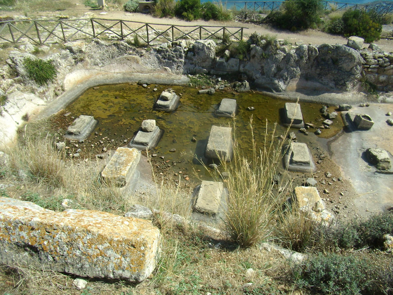 Soluntum, Sicily, big cistern next to Agora